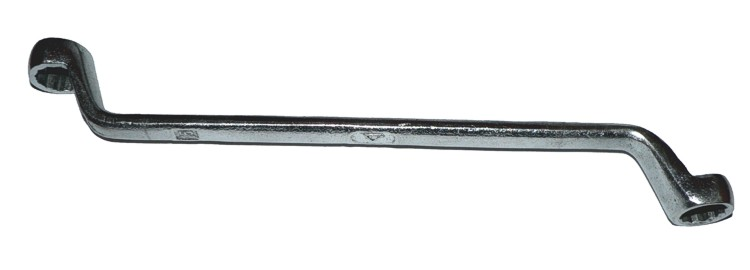 box wrench